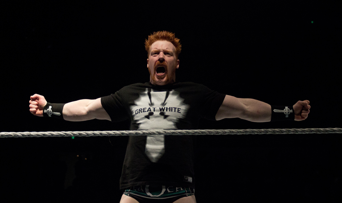 Sheamus